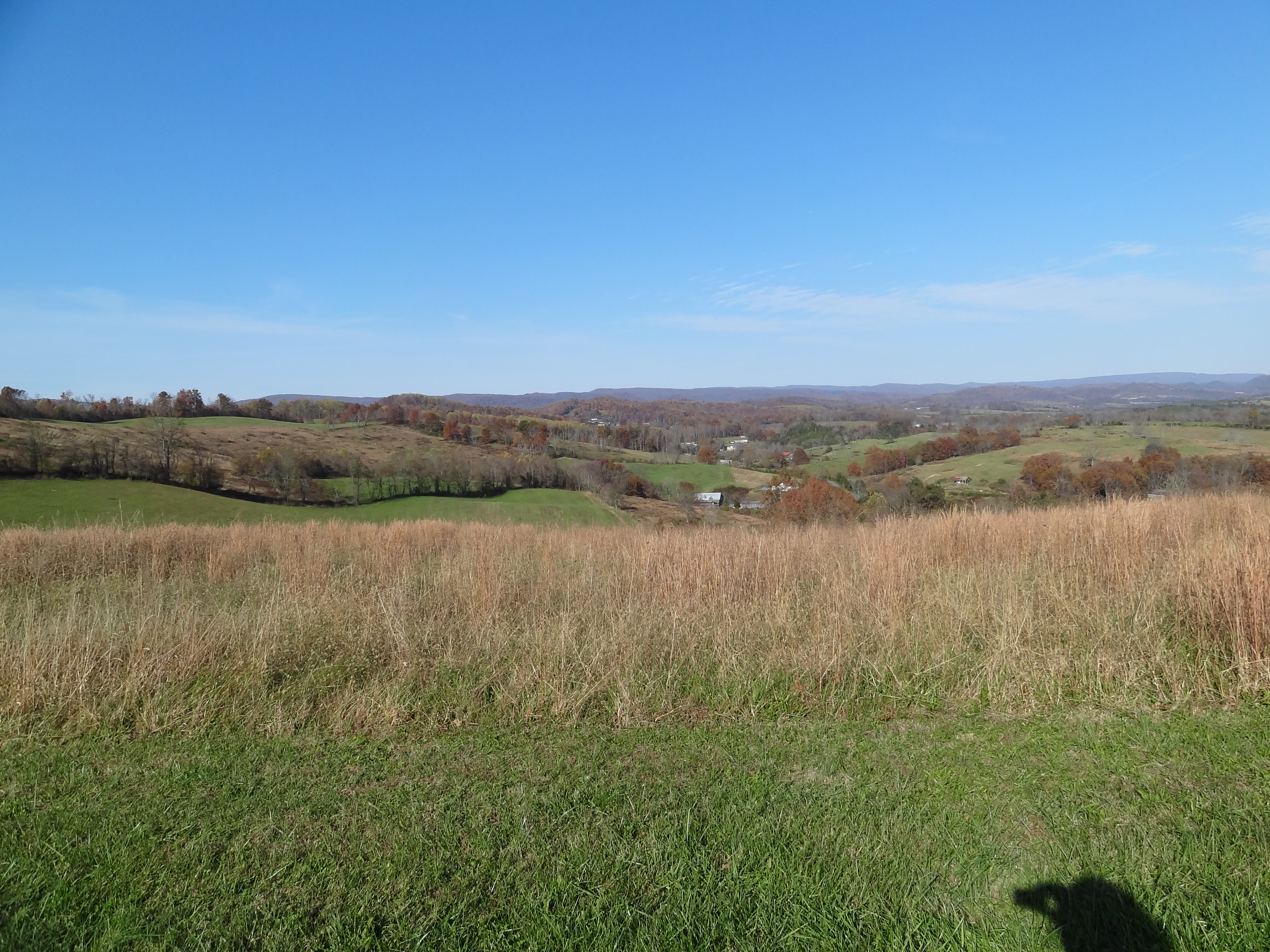 View from Gazebo